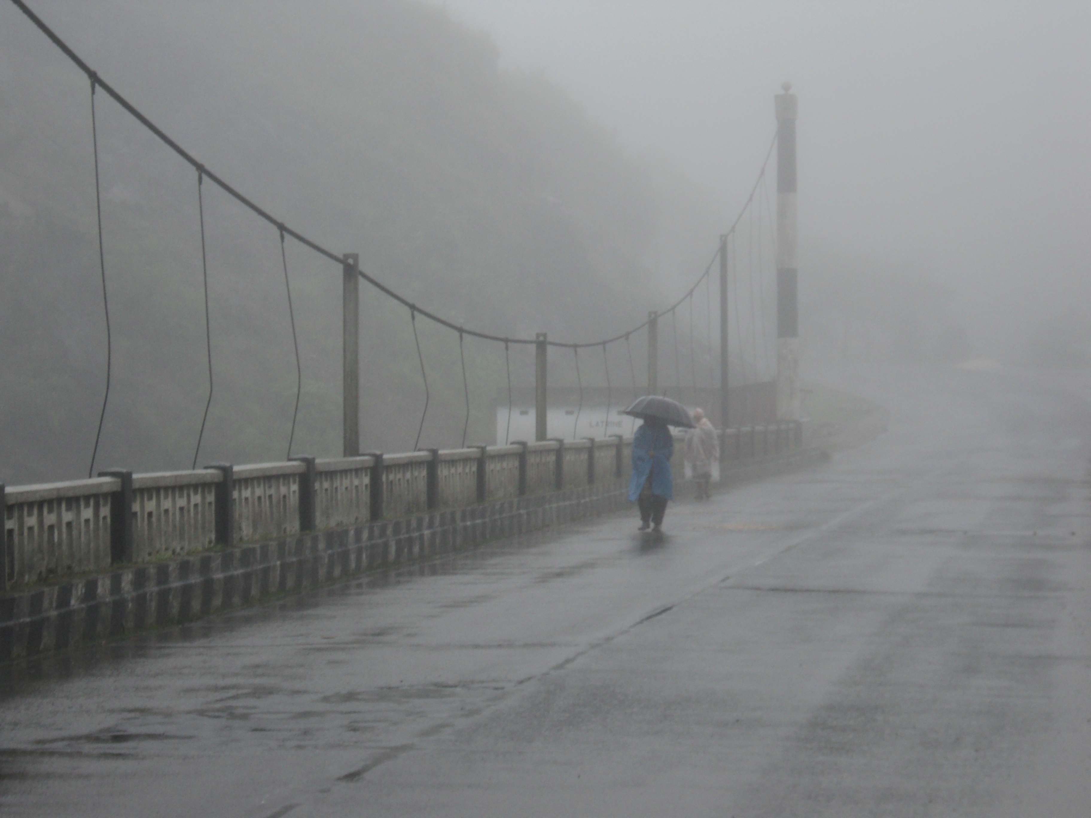 Cherrapunjee or Sohra - Wettest place on earth